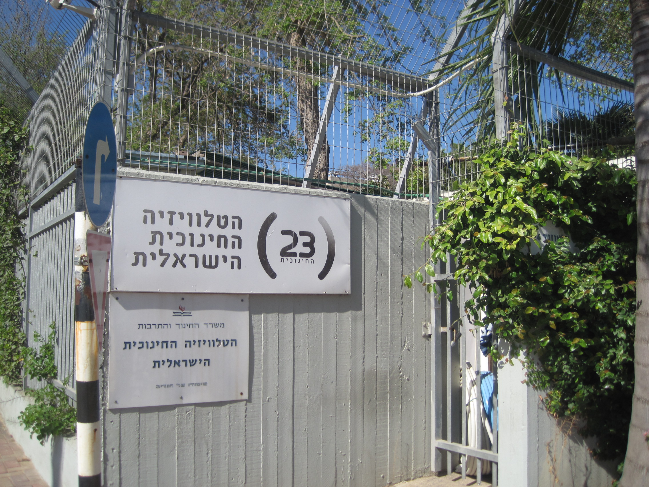 חינוכית 23